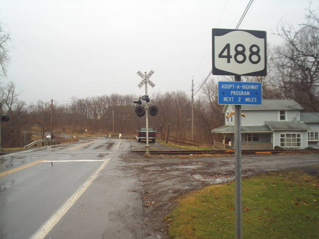 New York State Route 488 heading eastbound from its terminus in Chapin. The Finer Lakes Railroad crosses ahead and East Avenue is visible in the distance.